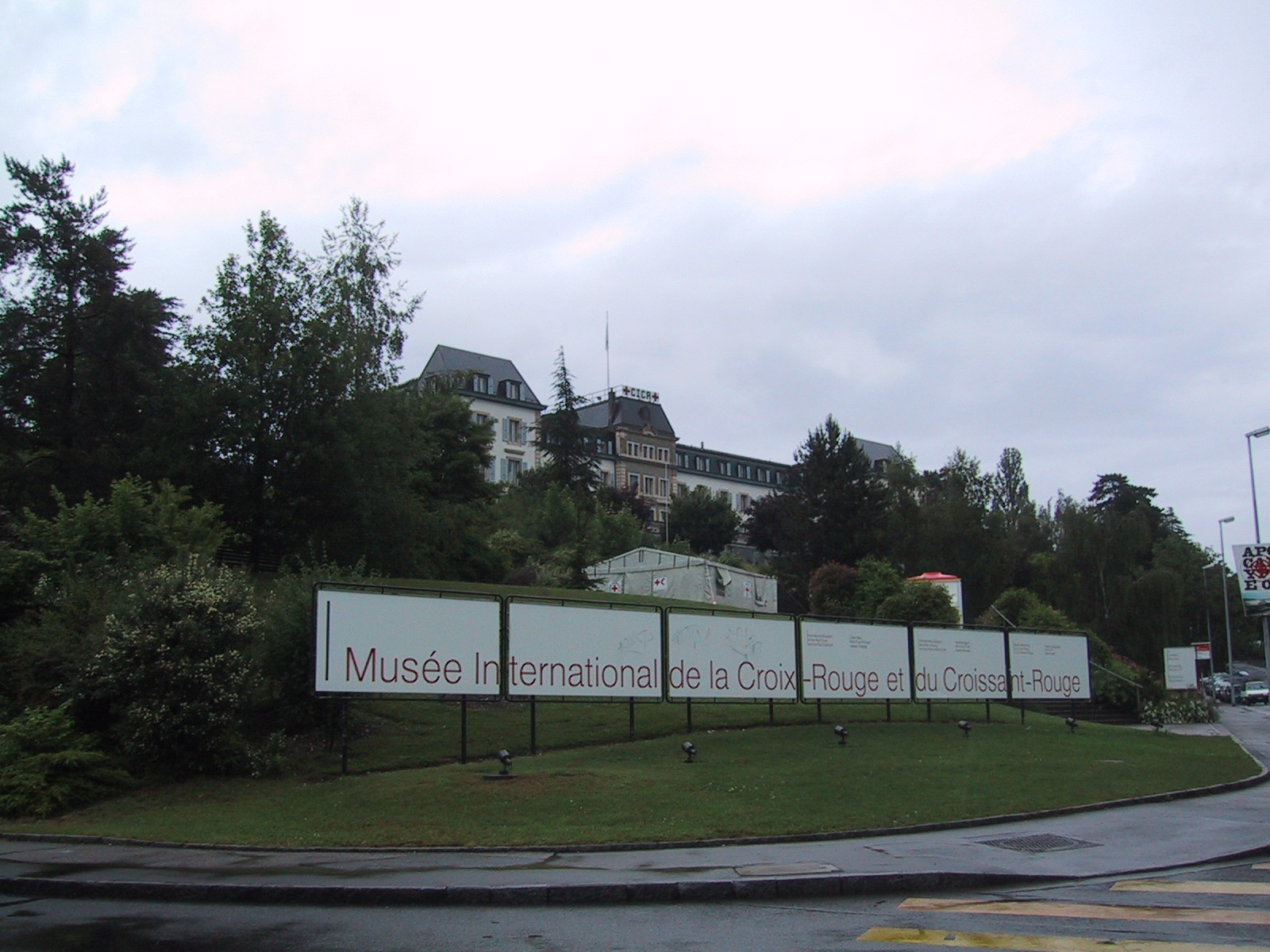 Red Cross museum in Geneve